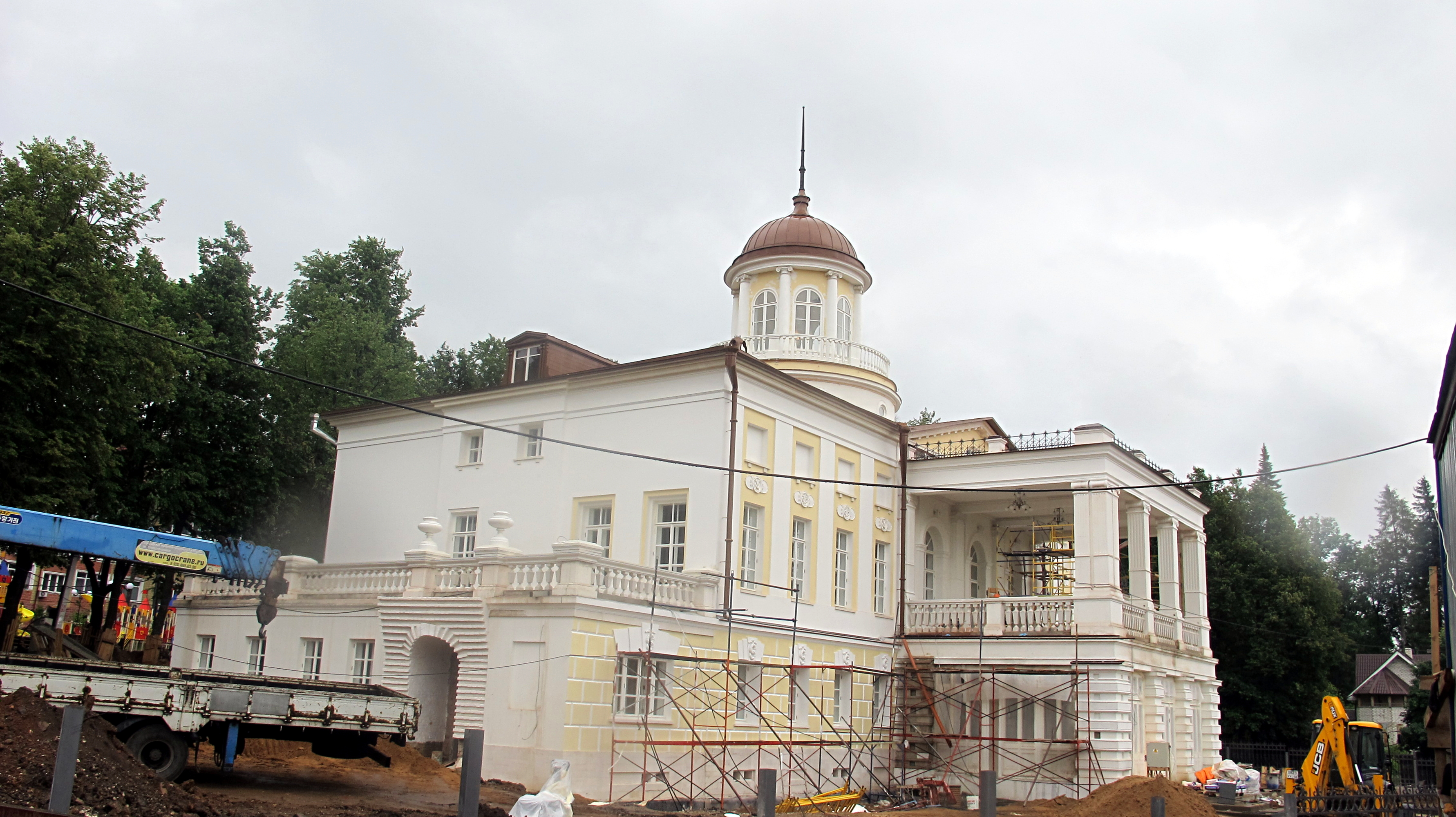 Wikiexpedition to Kaluga 2016-06-11.